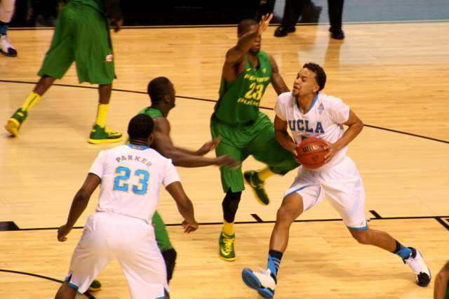 Kyle Anderson of UCLA against Oregon